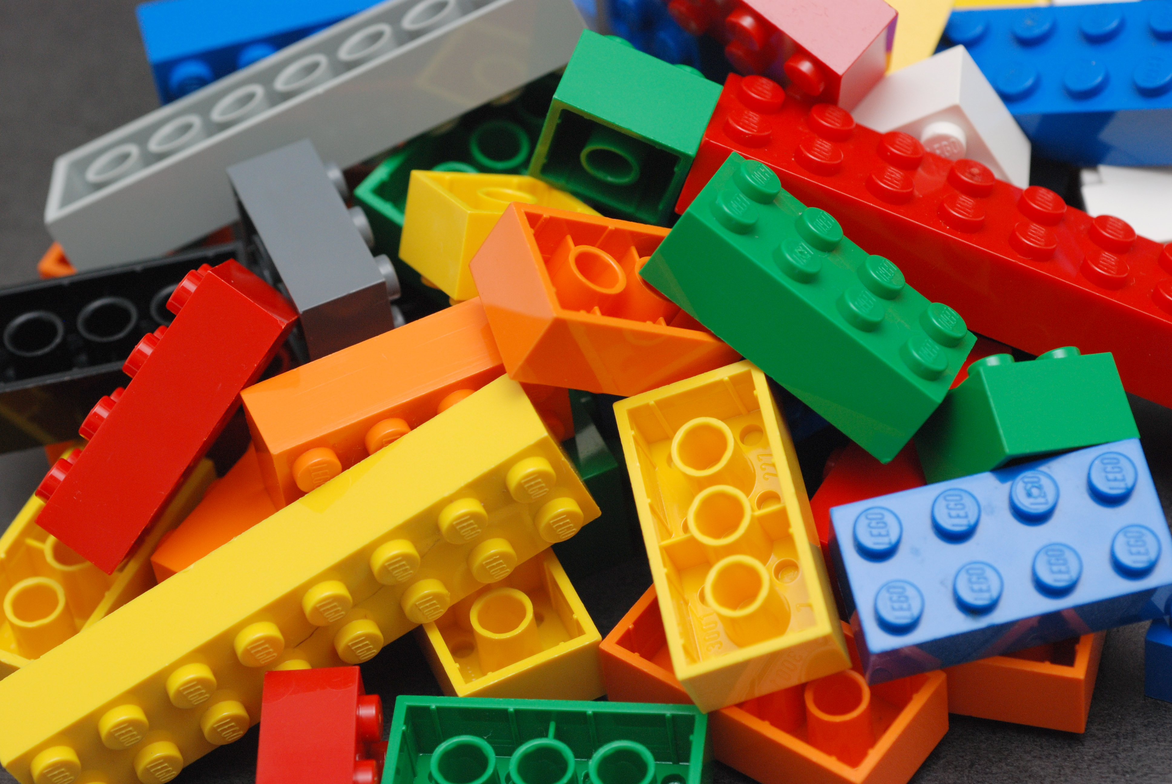 A pile of Lego blocks, of assorted colors and sizes.